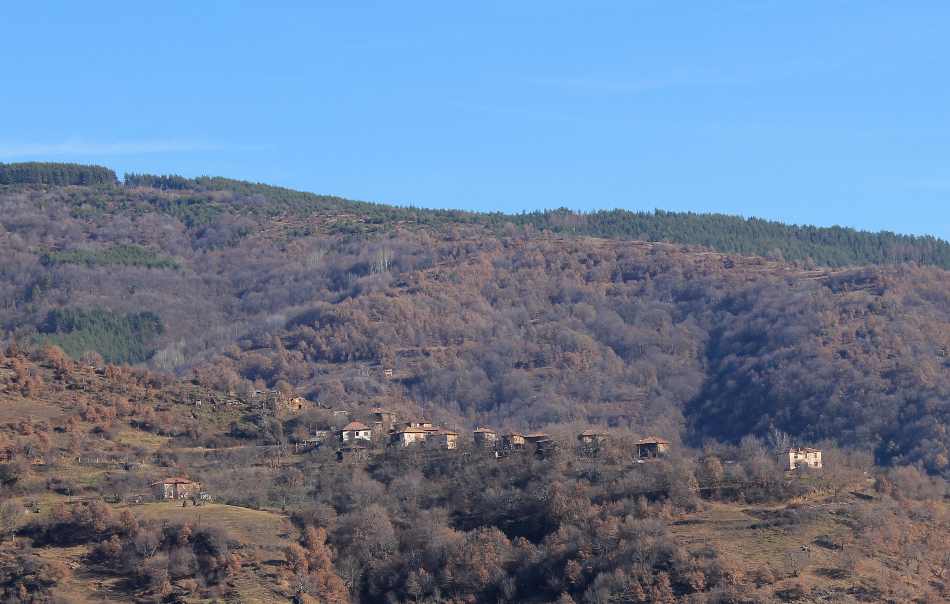 General view of the village Zoychene